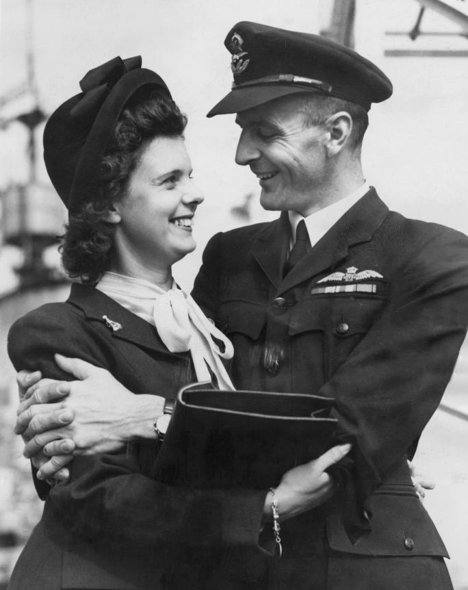 Squadron Leader Stan Sismey (1916 - 2009) of the Royal Australian Air Force (RAAF), an Australian cricketer, greets his wife Elma (née McLachlan) upon her arrival in Sydney, Australia, 3rd June 1946.